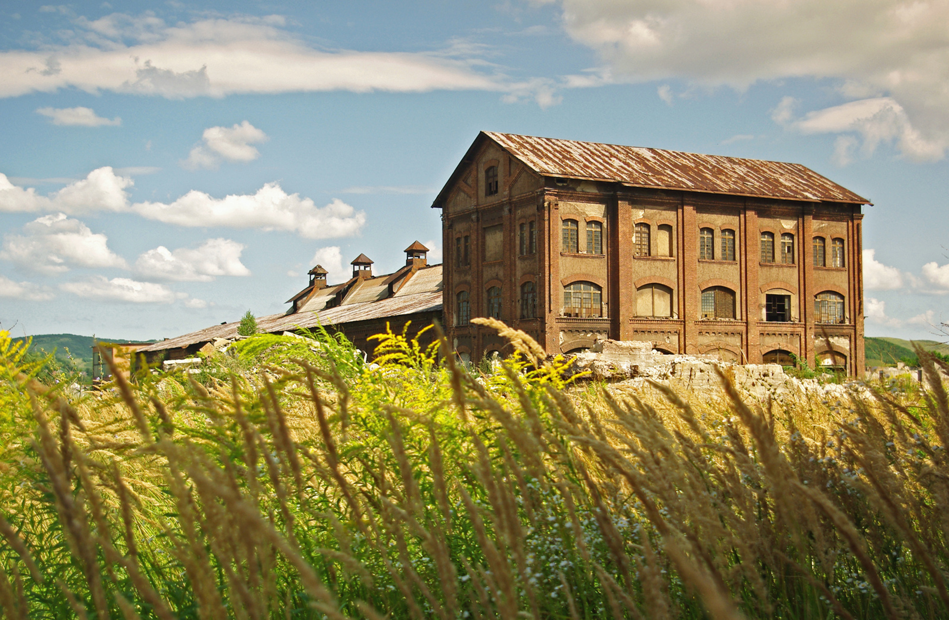 Blower Engine Room, in Ózd, Törzsgyár